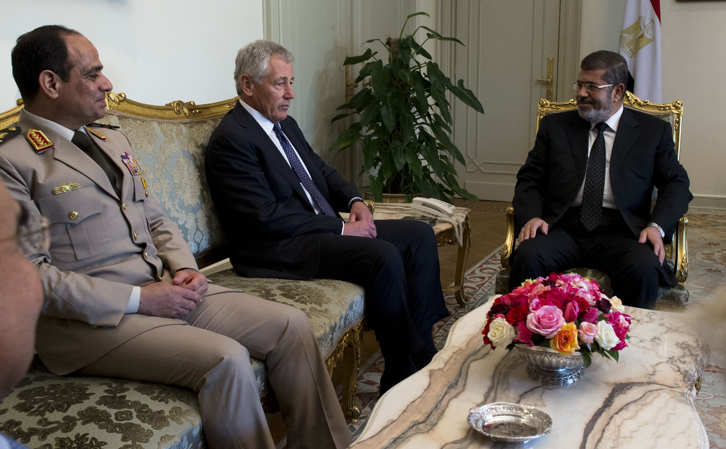 Secretary of Defense Chuck Hagel meets with Egyptian President Mohamed Morsi in Cairo, Egypt, April 24, 2013. Egypt is Hagel's fourth stop on a six day trip to the Middle East to meet with defense counterparts. Also with Abdul Fatah al-Sisi (Photo by Erin A. Kirk-Cuomo) (Released)